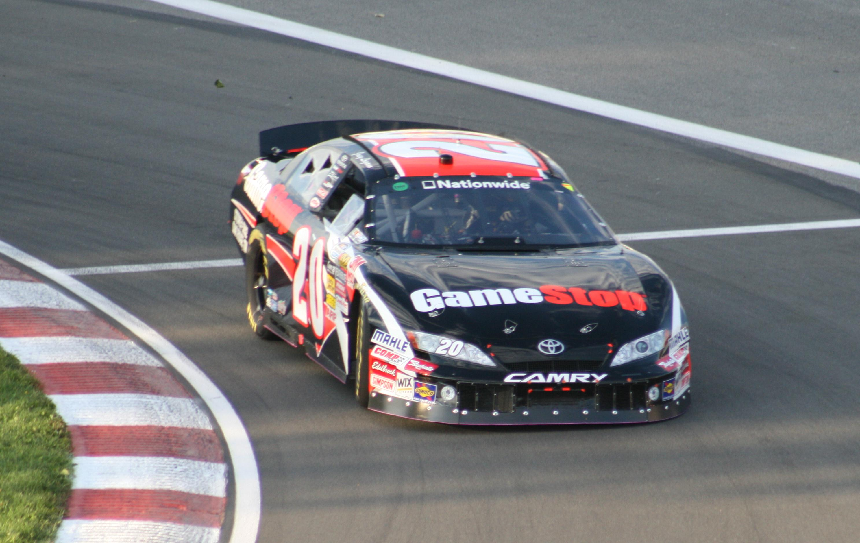 Joey Logano in the qualification for the 2010 NAPA Auto Parts 200 at the Circuit Gilles Villeneuve in Montreal.